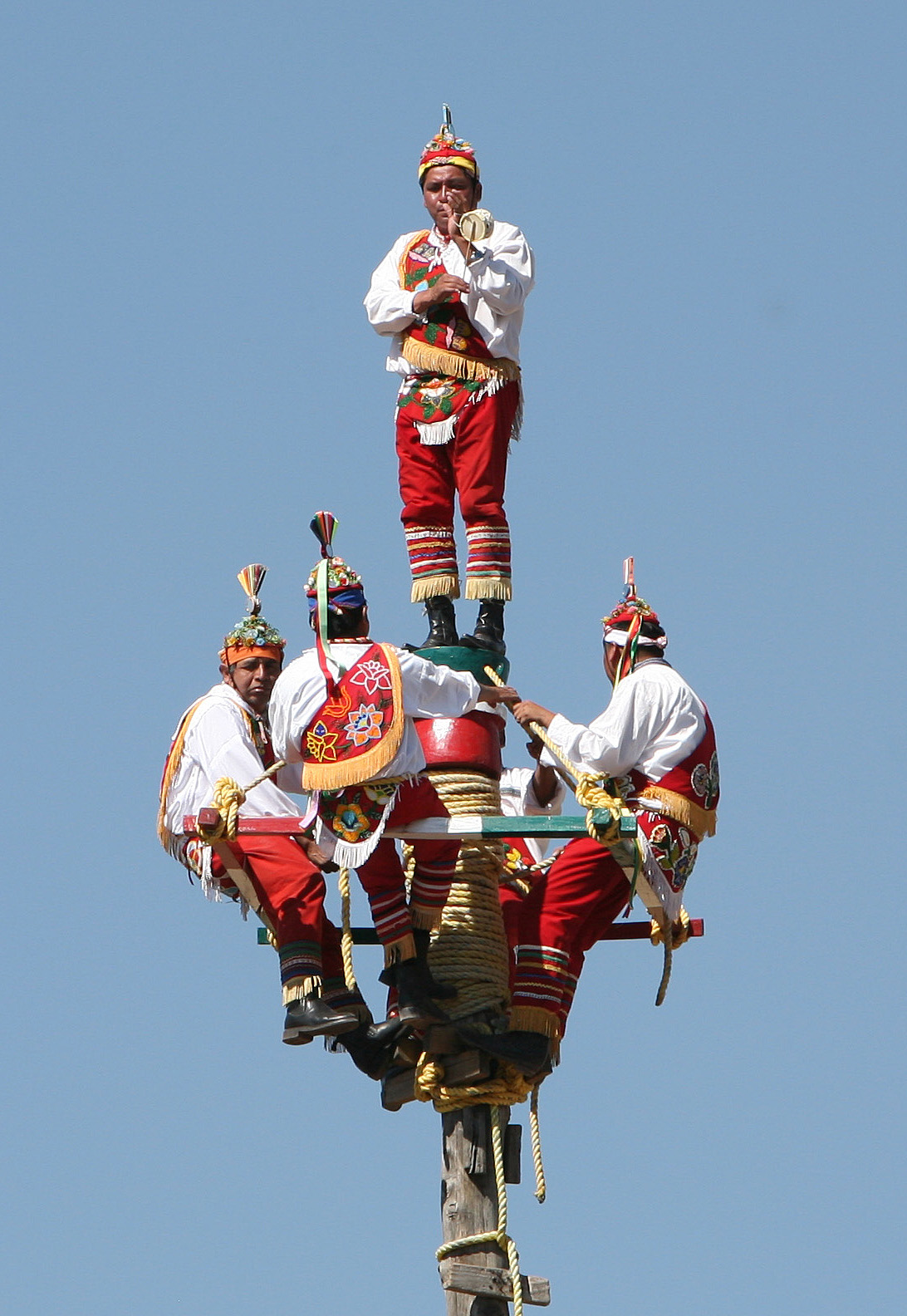 The Flying Men dancing on a pole, part of an ancient Mexican tradition. Check out the whole dance here